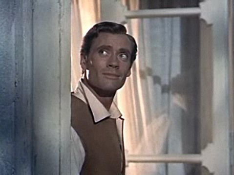 Cropped screenshot of Mel Ferrer from the trailer for the film War and Peace.